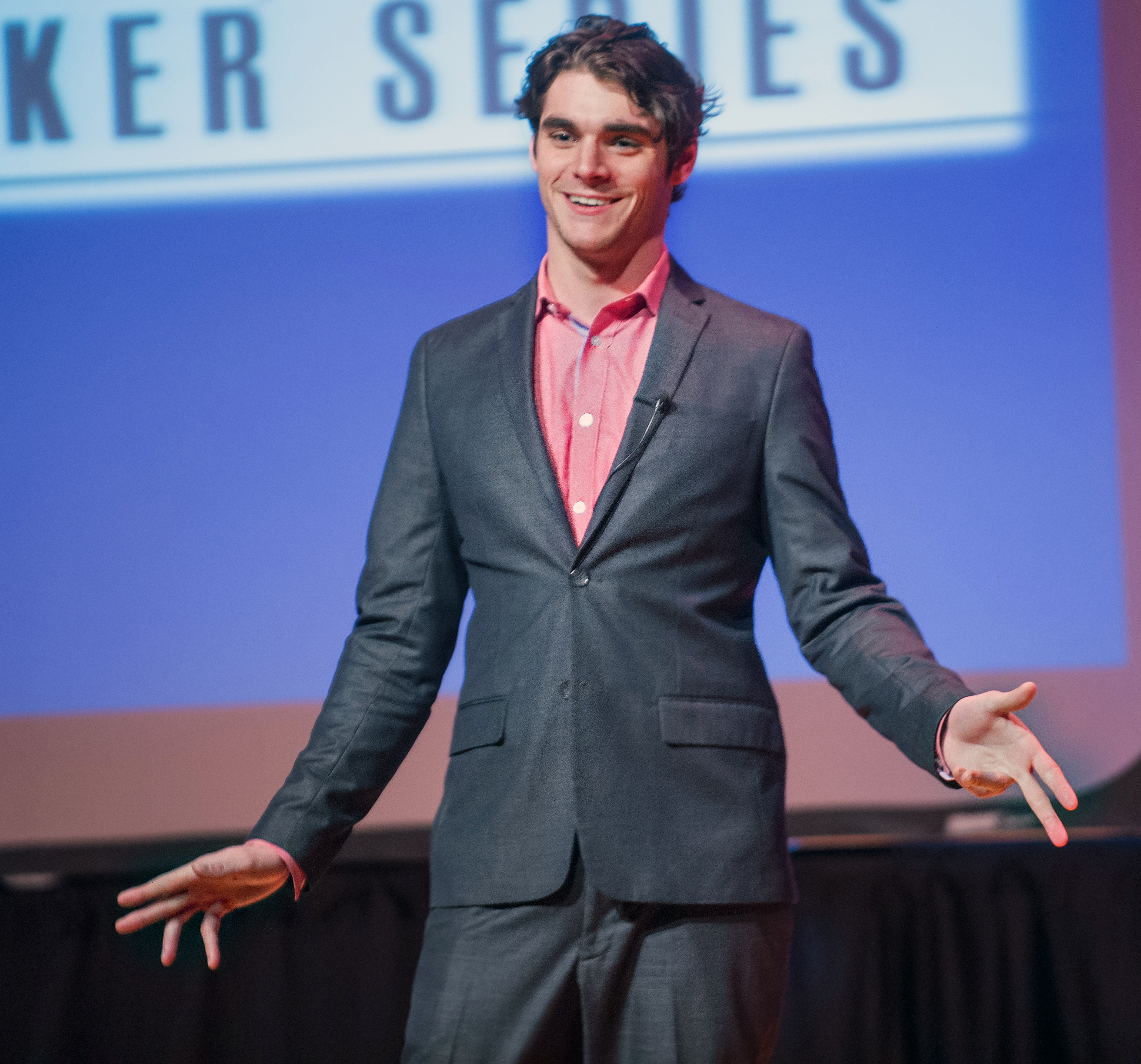 15131-Mayo Speaker Series- RJ Mitte-0239 RJ Mitte at the Mayo Speaker Series, Texas A&M University–Commerce (April 14, 2015)